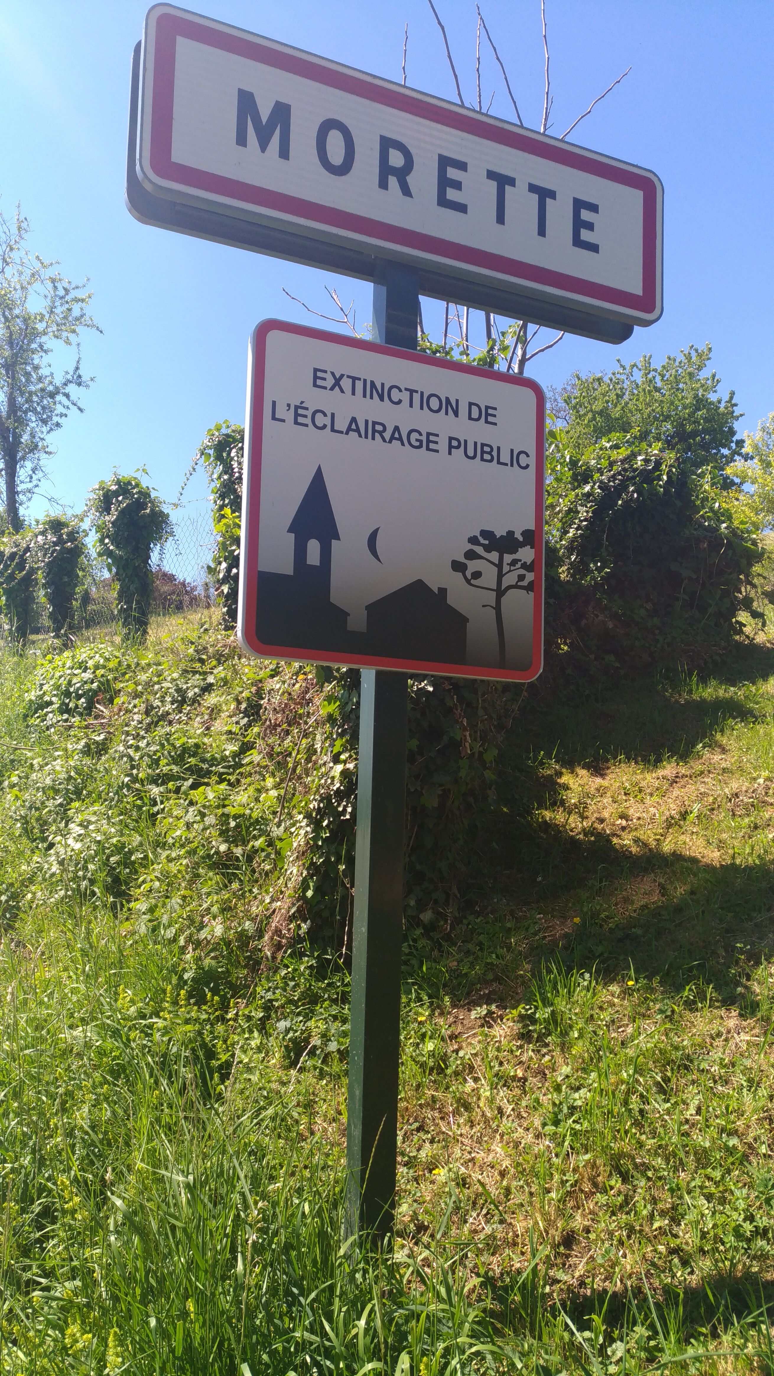 French road sign, to inform about the night-time extinction of public lighting. You can see it at the entrance of agglomeration.